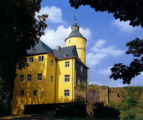 Castle Homburg (Schloss Homburg) in Nümbrecht. - Schloss Homburg in der Gemeinde Nümbrecht. Author mrfinch Time of creation 2003 Licence GNU FDL and CC-by-SA Camera Canon S 45